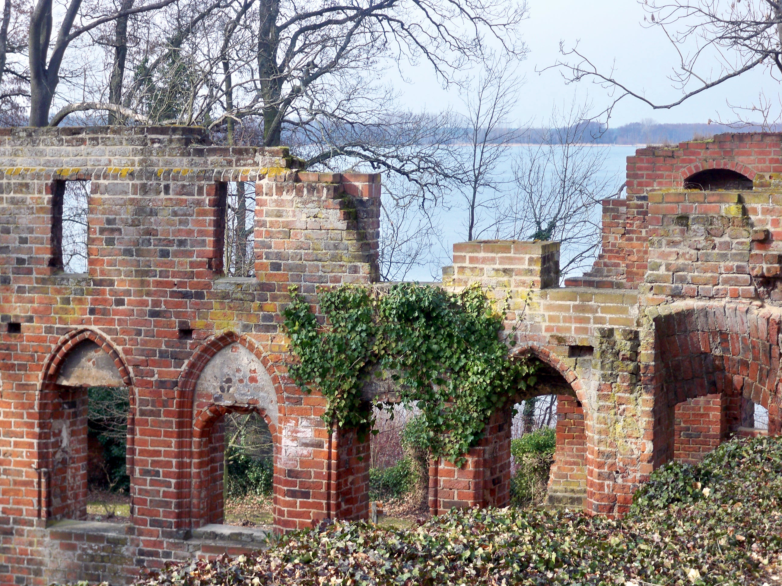 Arendsee, Saxony-Anhalt, ruins of the former monastery